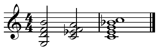 V-IV-I turnaround in C.